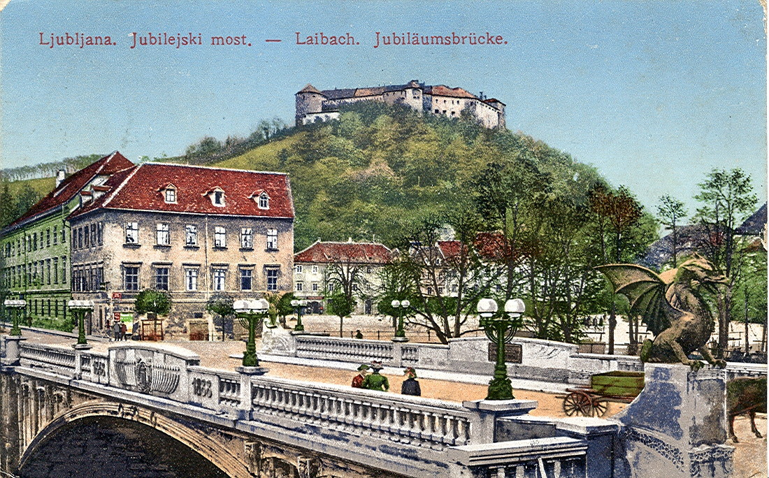 Postcard, undated ( ca.1914 ). Title: "Ljubljana - Jubilee bridge."